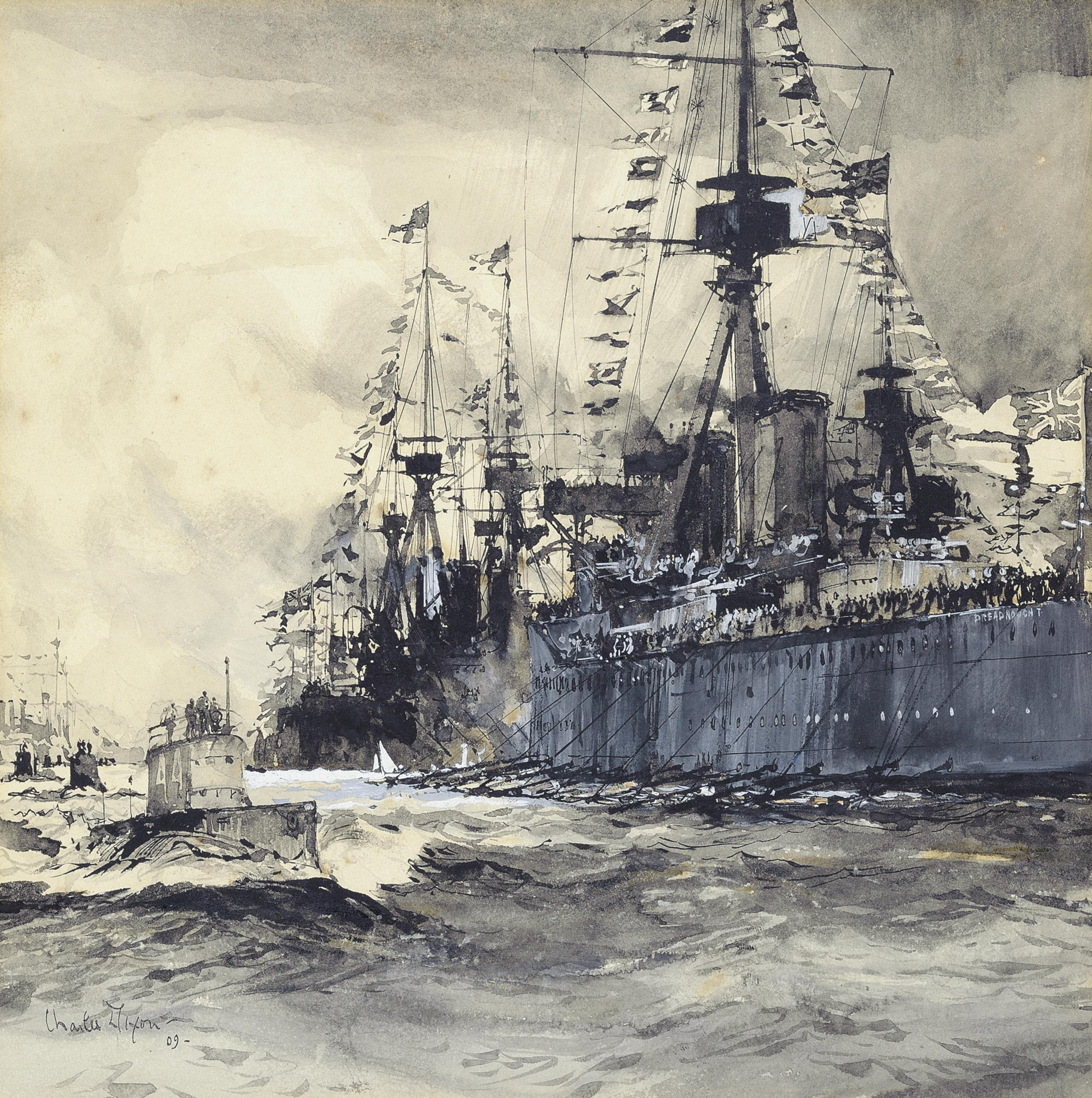 A fleet of submarines passing H.M.S. Dreadnought, by Charles Edward Dixon signed and dated 'Charles Dixon/09 -' (lower left) pen and black ink, black wash and bodycolour, on paper 10 x 10 in. (25.4 x 25.4 cm.)